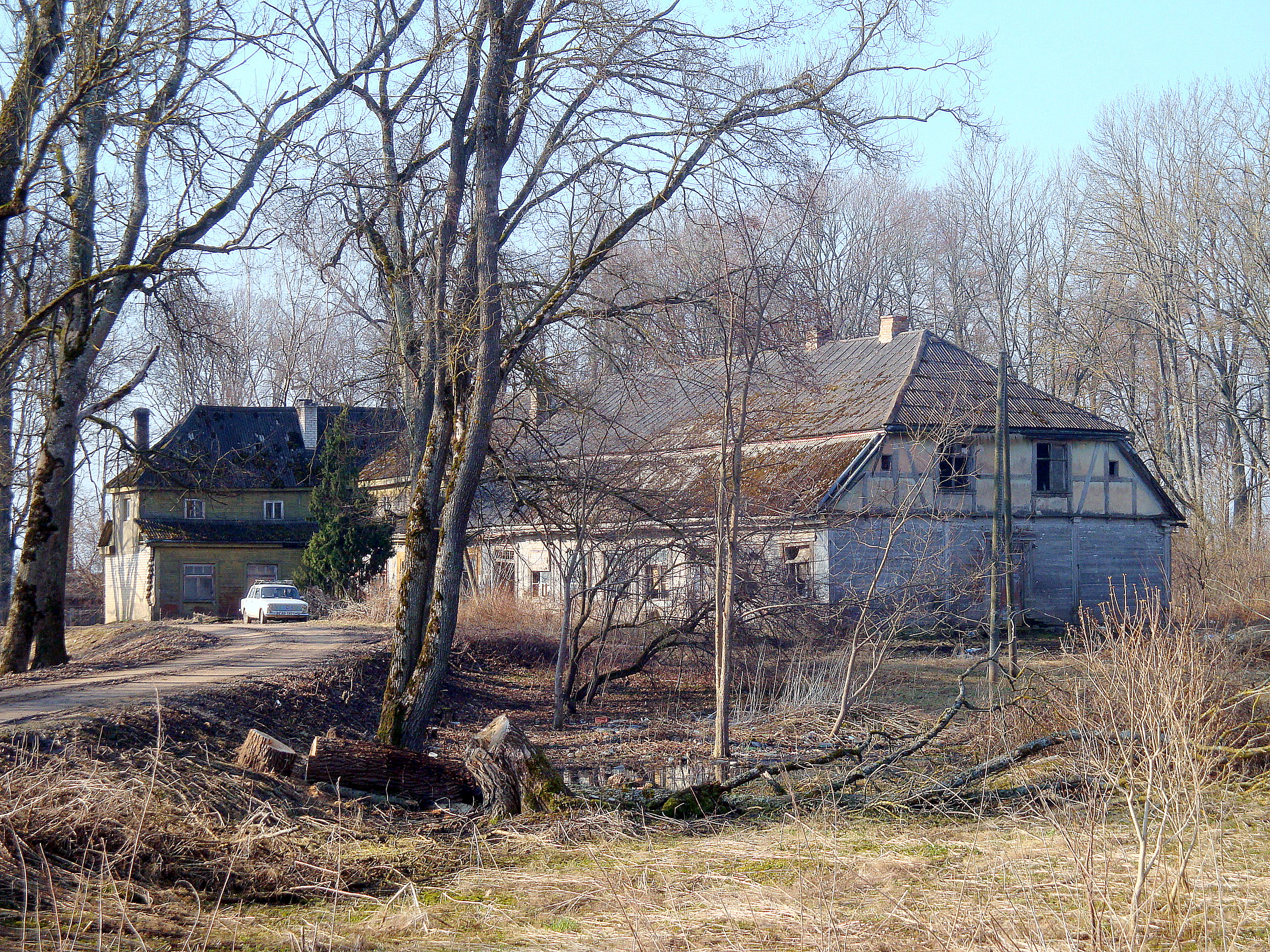 Old wooden house of Livesmuiza manor (17th century)